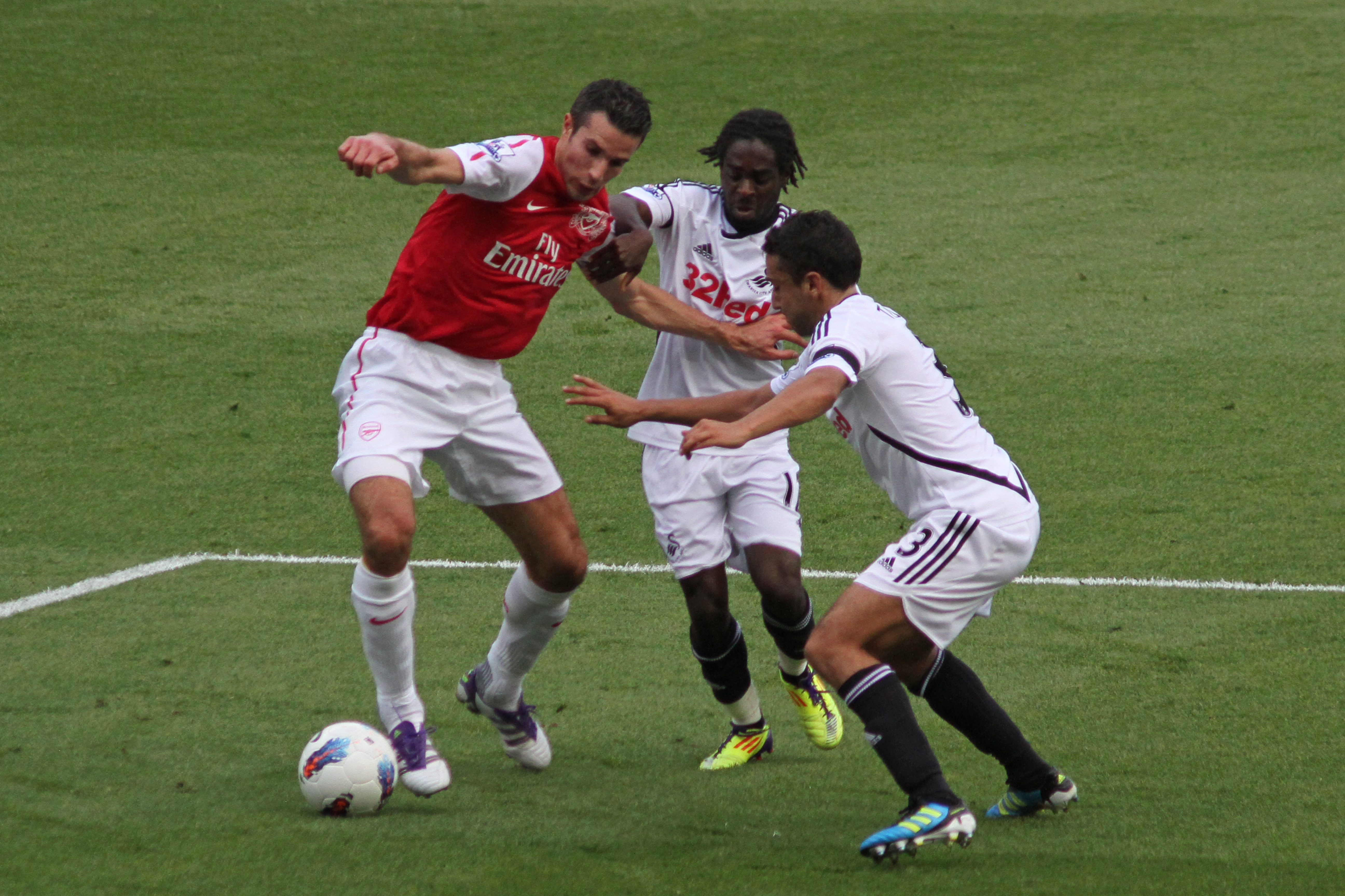 Robin van Persie of Arsenal defended by Nathan Dyer and Neil Taylor of Swansea.